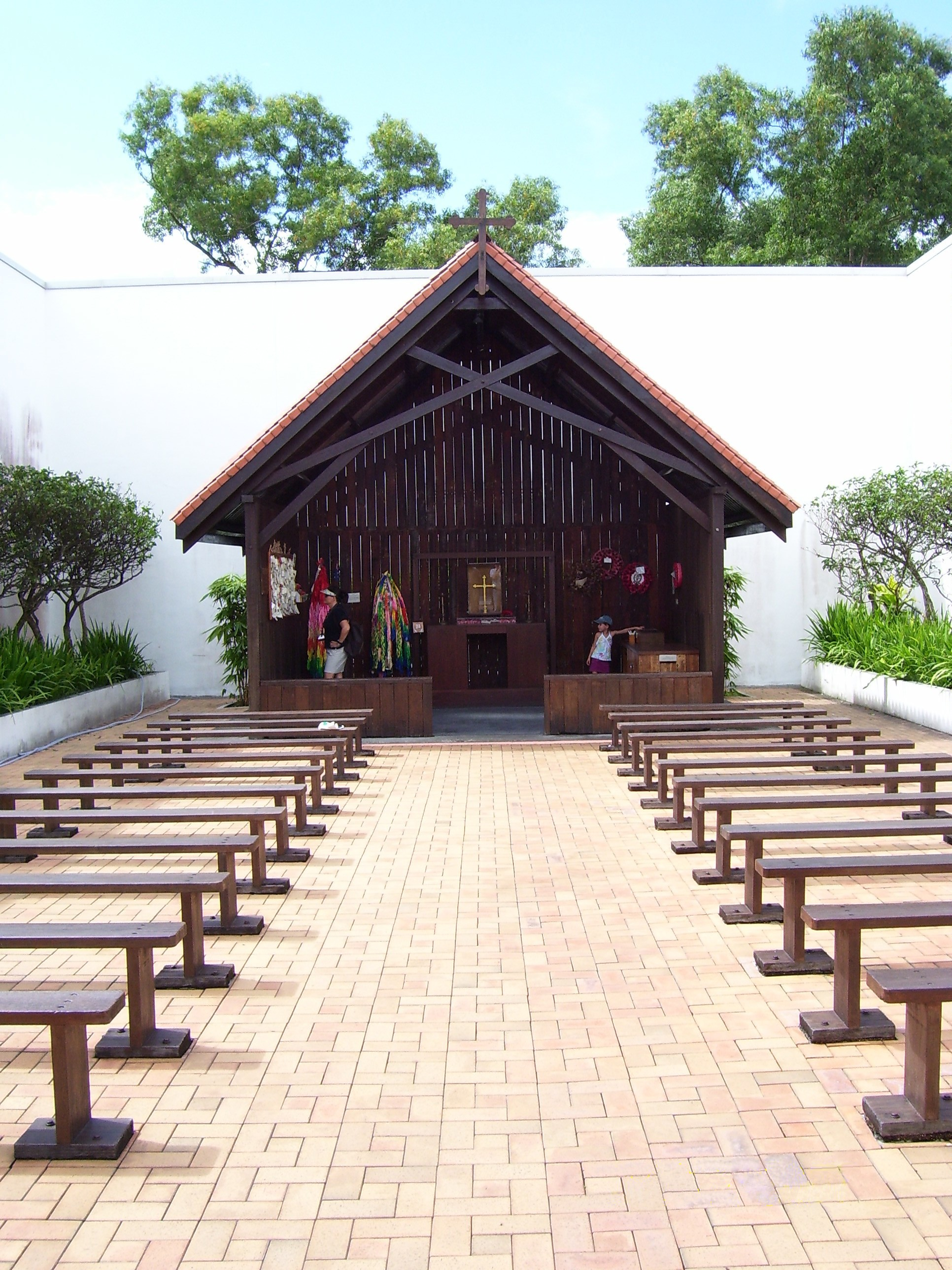 A replica of the Old Changi Prison Chapel at the Changi Museum, Singapore. The chapel was originally constructed by Australian and British prisoners of war (POWs) in Changi Prison in 1944. At the end of World War II it was dismantled and shipped to Australia, where it was put into storage. It was reconstructed and unveiled in 1988 in Duntroon, Canberra, as a POW memorial. The same year, a replica of the chapel and a museum were built in Singapore next to Changi Prison. When Changi Prison was later expanded, the chapel and museum were relocated to a new site one kilometre away and were officially relaunched on 15 February 2001.